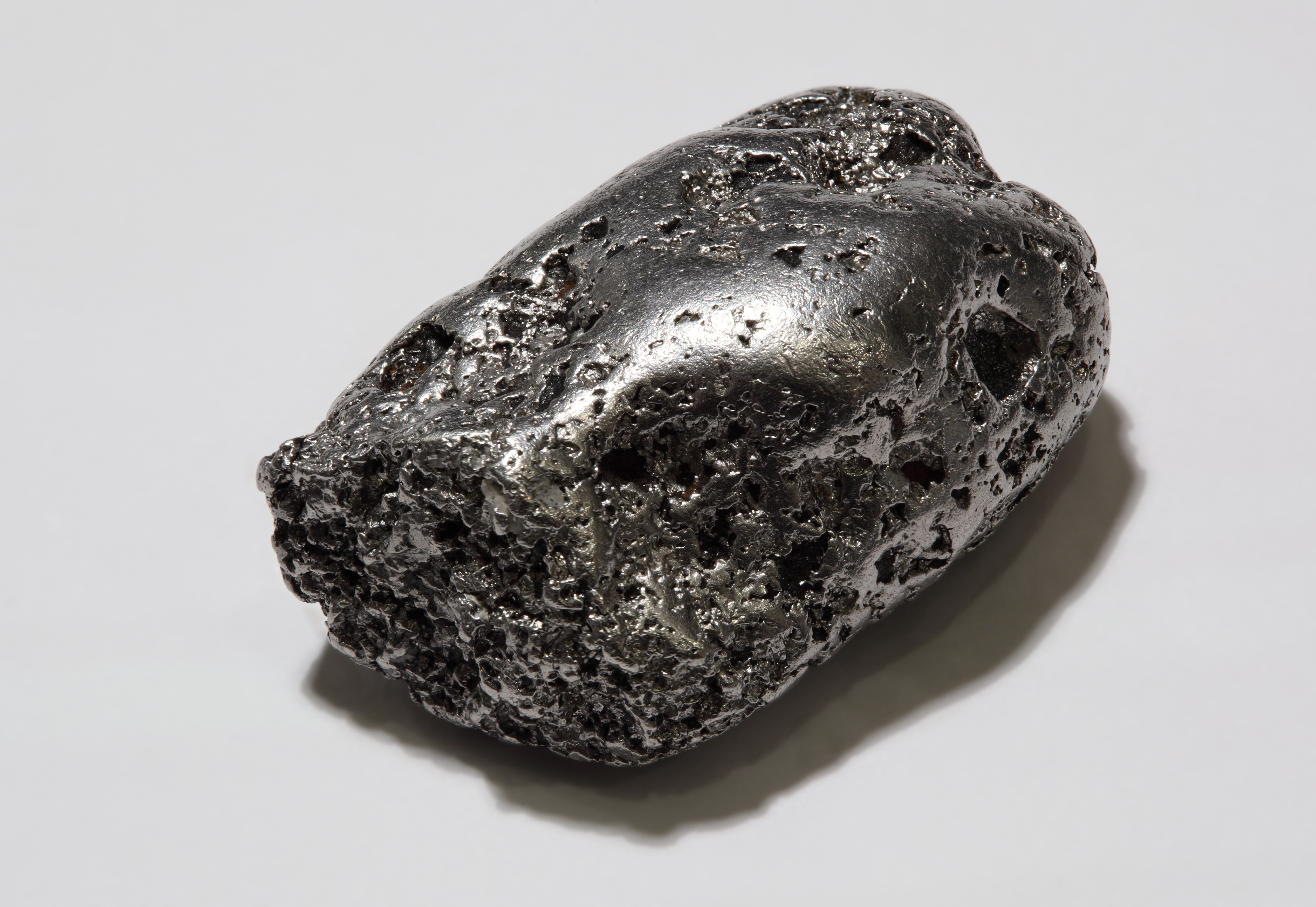 native Platinum nugget, locality Kondyor mine, Khabarovsk Krai, Russia. Size ca. 35 × 23 × 14 mm, weight ca. 112g = 3.6 oz. Collection: M.R.